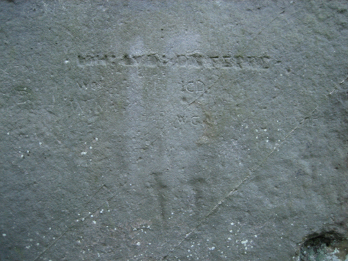 Stonehenge showing graffiti and dagger carving.